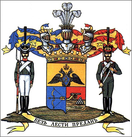 Coat of arms of the Counts of Arakcheyev, Alexey Andreyevich Arakcheyev (Arakcheev) (October 4 [O.S. September 23] 1769 – May 3 [O.S. April 21] 1834). Motto: By work and diligence. Reduced copy of a real coat of arms.